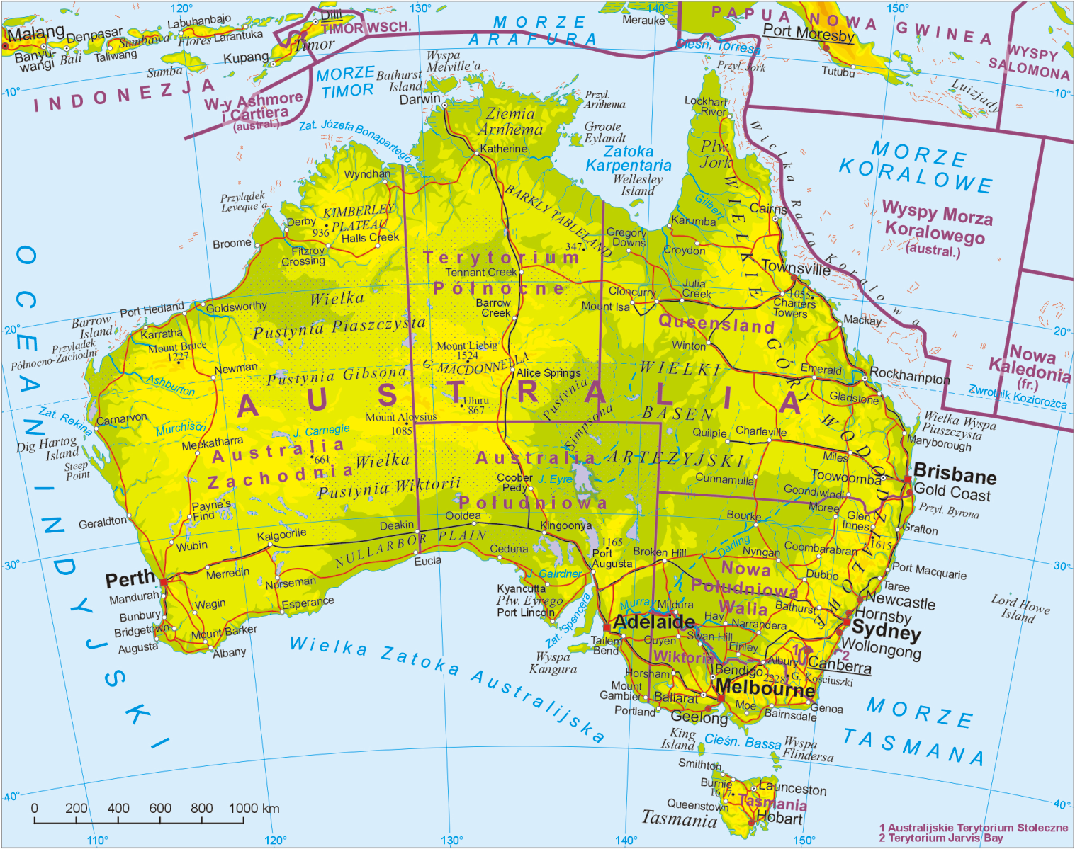 Map of Australia (with Polish labels)Legenda